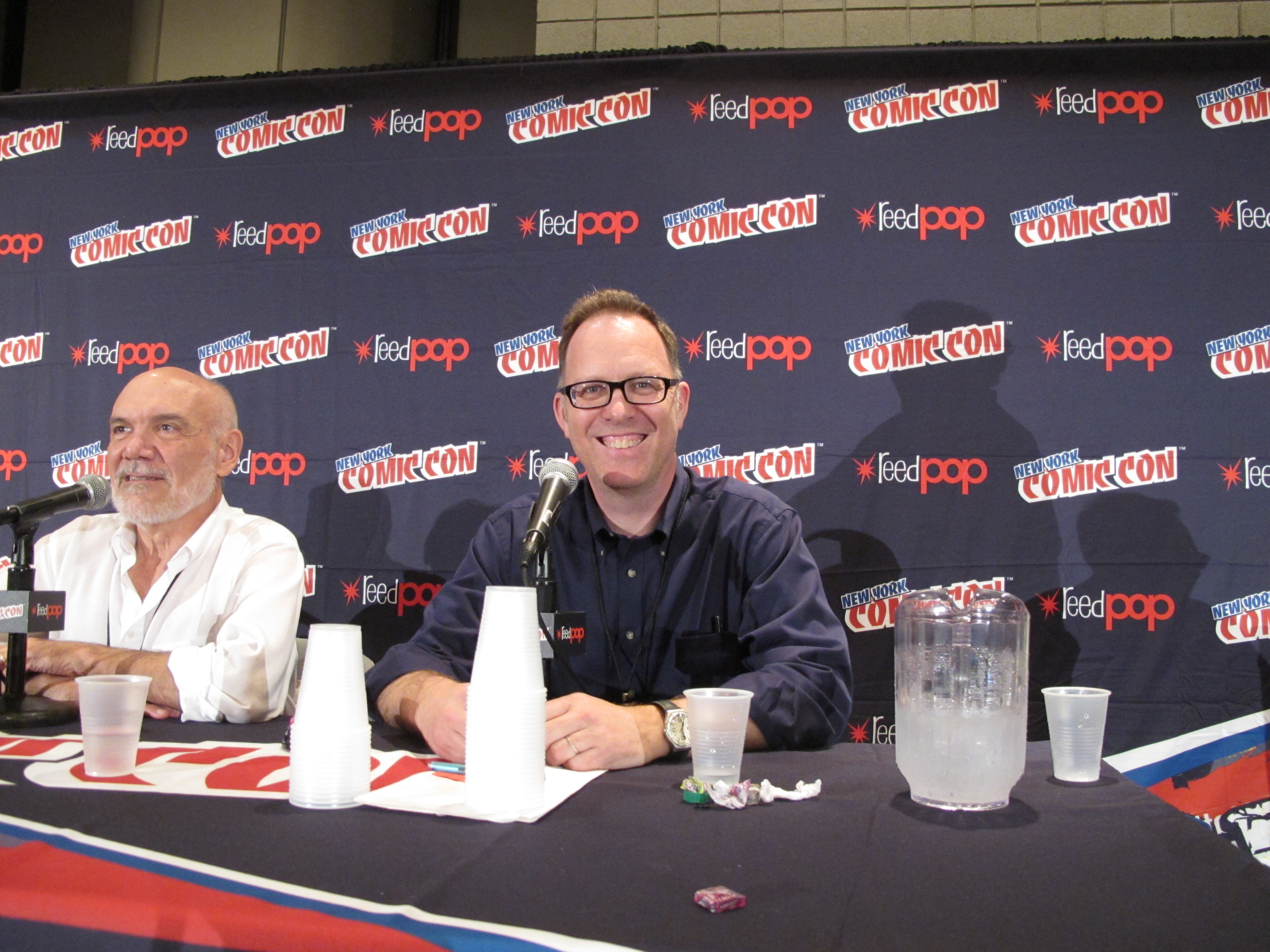 Garth Nix 2014 New York Comic Con.